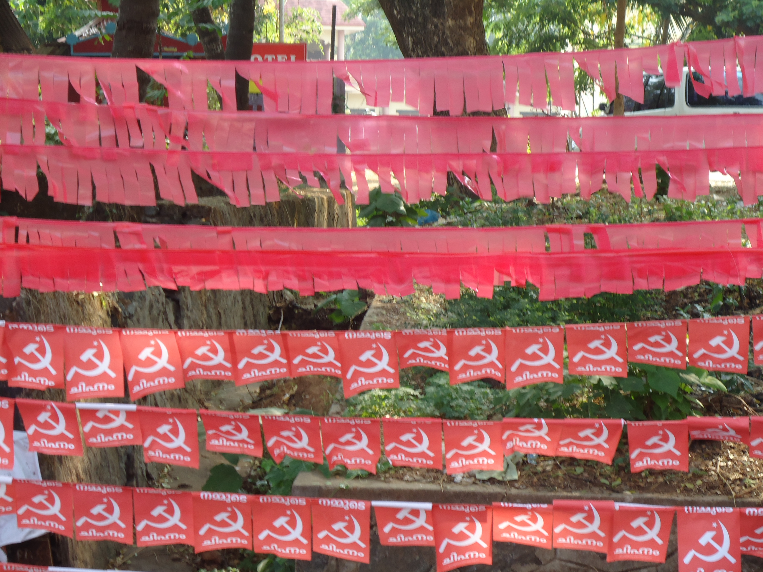 This media file is uploaded with Malayalam loves Wikimedia event.